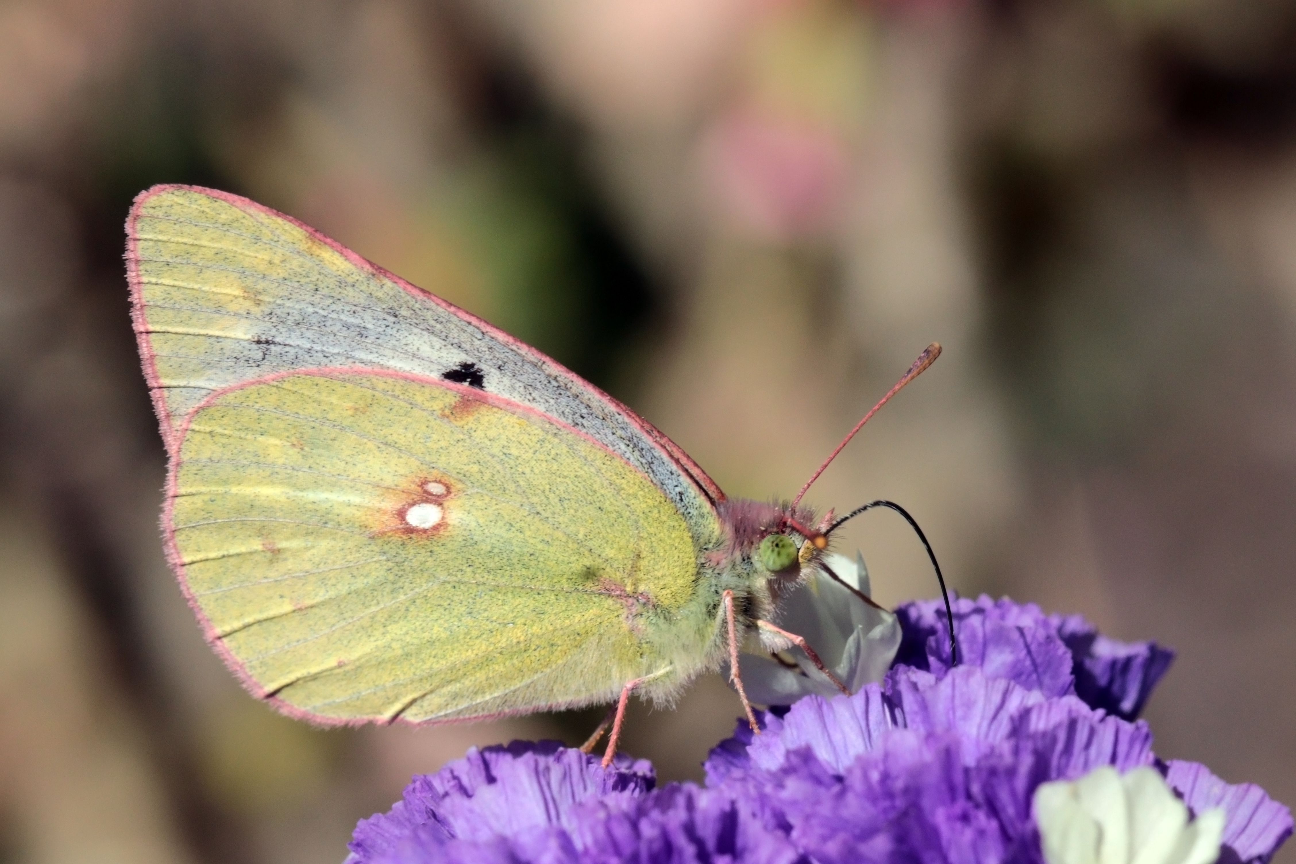 African clouded yellow (Colias electo pseudohecate), Bale Mountains, Ethiopia